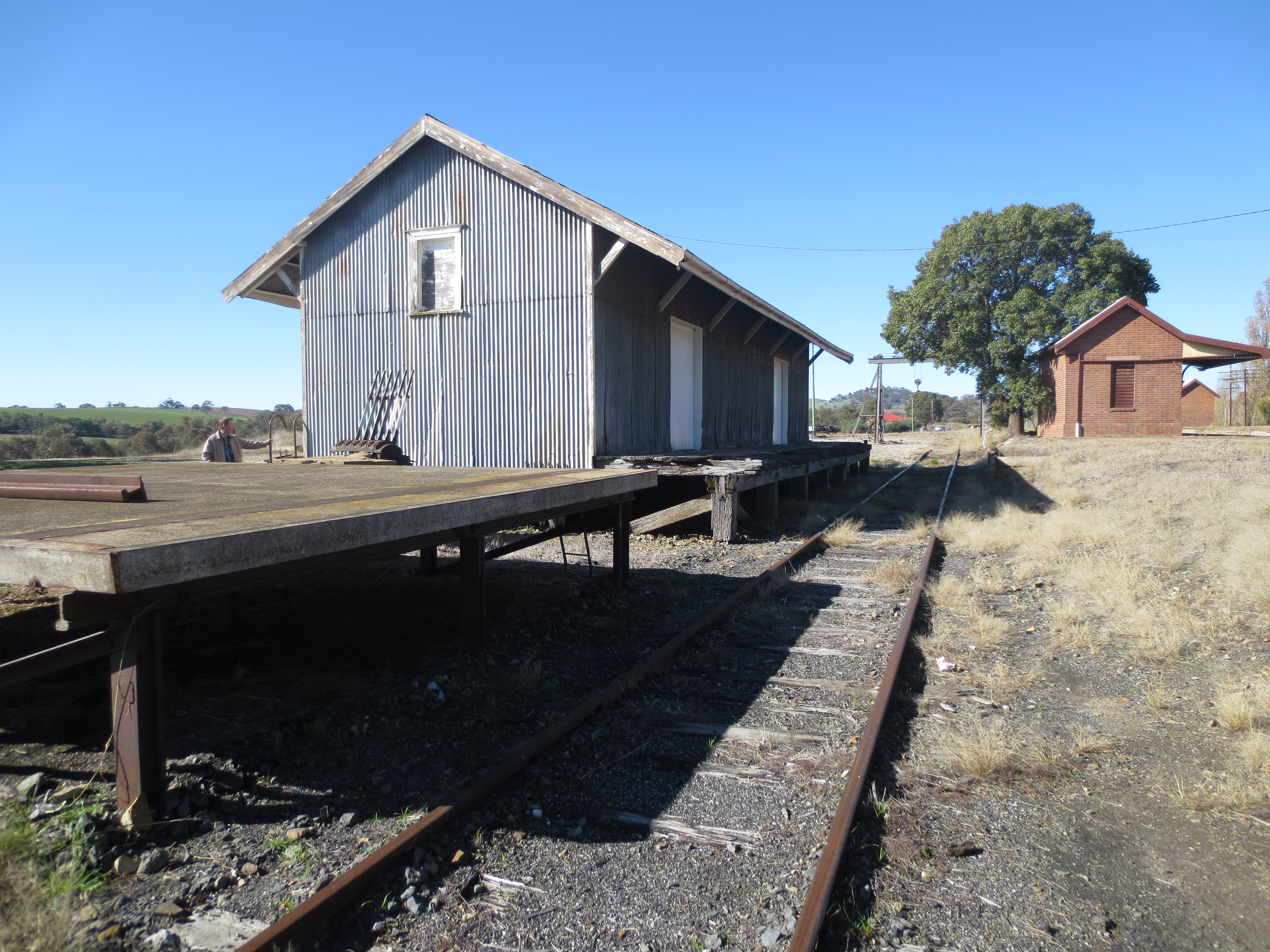 loading platform and old warehouse both derelict at Galong Railway Station, Australia